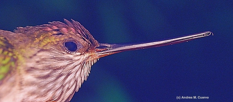 The natural history of this incredible hummingbird is poorly known. This endemic of the Chocó and Darién lowlands and foothills seems to have seasonal movements along elevation, at least in the gradient from the Nechí lowlands to the northern slopes of the Central cordillera. We've found this jewel having peaks of abundance at certain times of the year at 1500 m. Here's a male!!